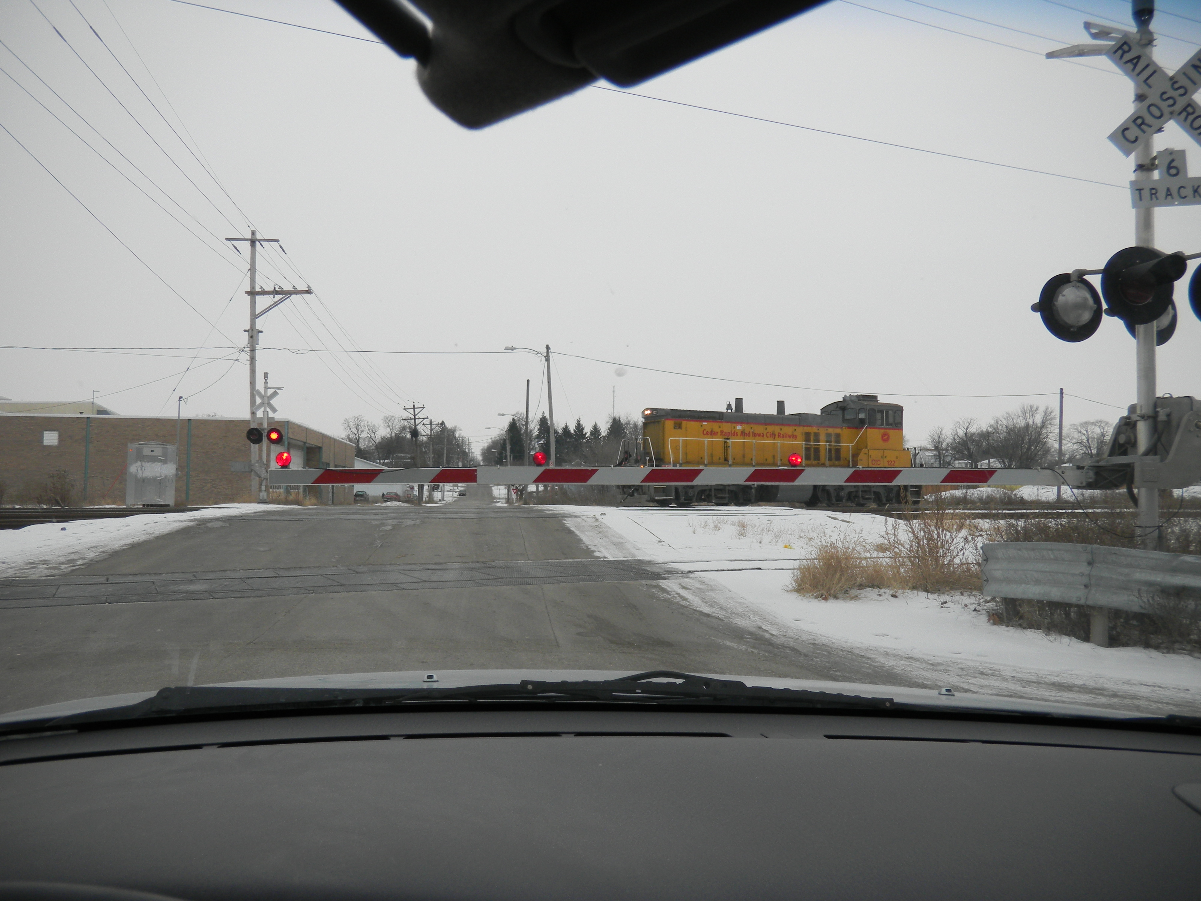 CRANDIC engine moving without cars